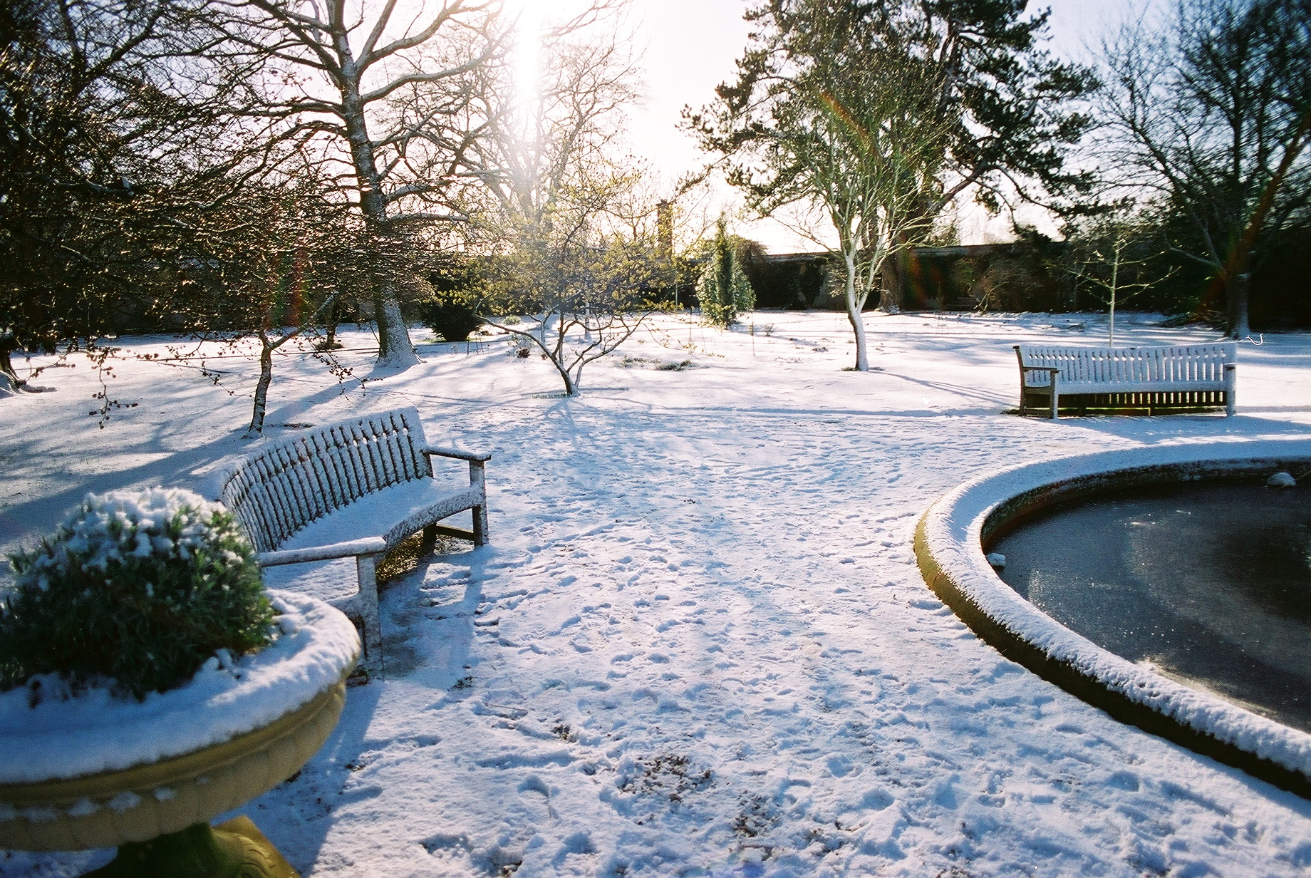 A photograph of Oxford's Botanic Garden under snow.